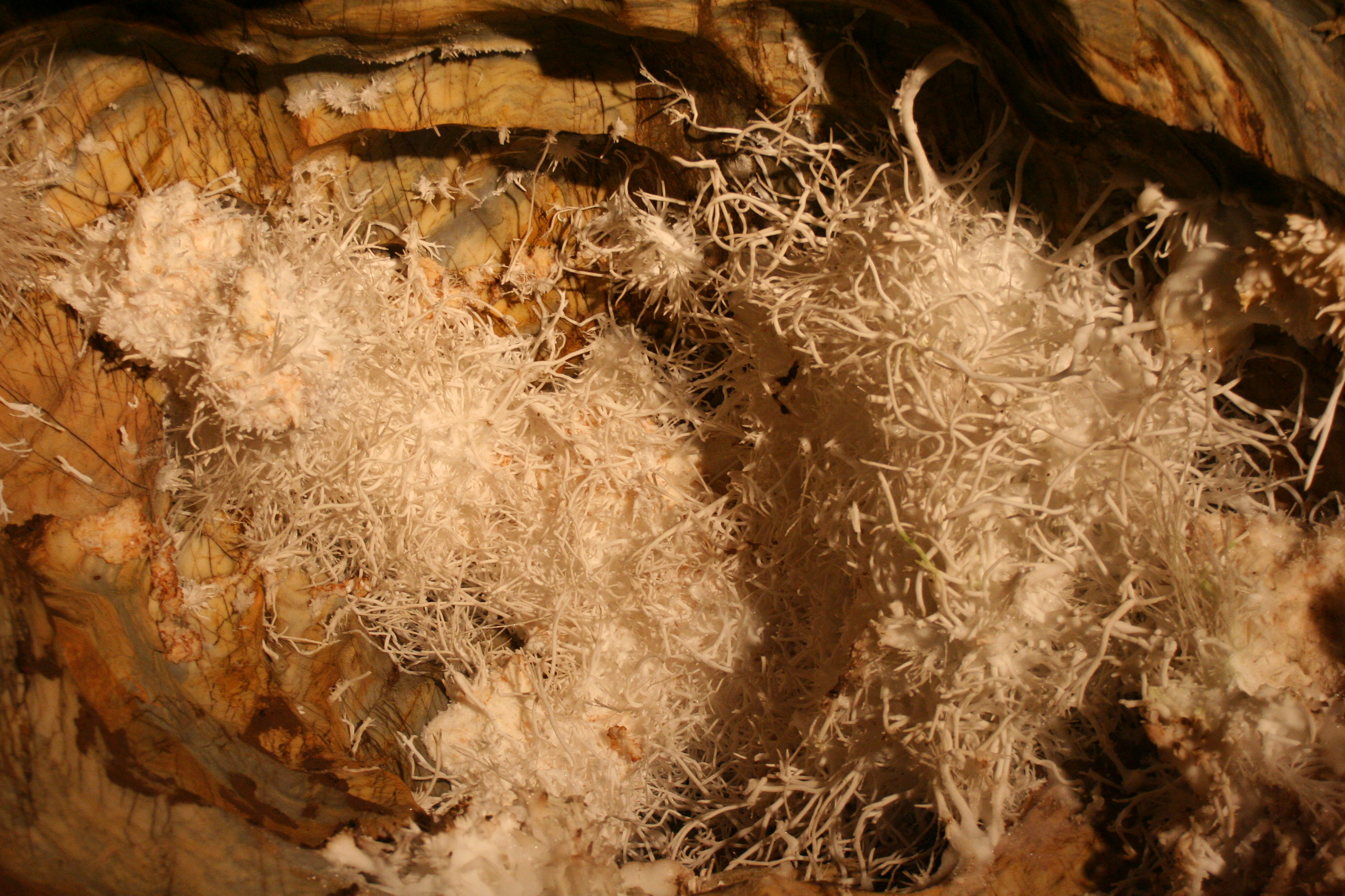 Ochtiná Aragonite Cave (Ochtinská aragonitová jaskyňa), Slovakia. Taking this photo was made possible through the financial support of Wikimedia Polska.